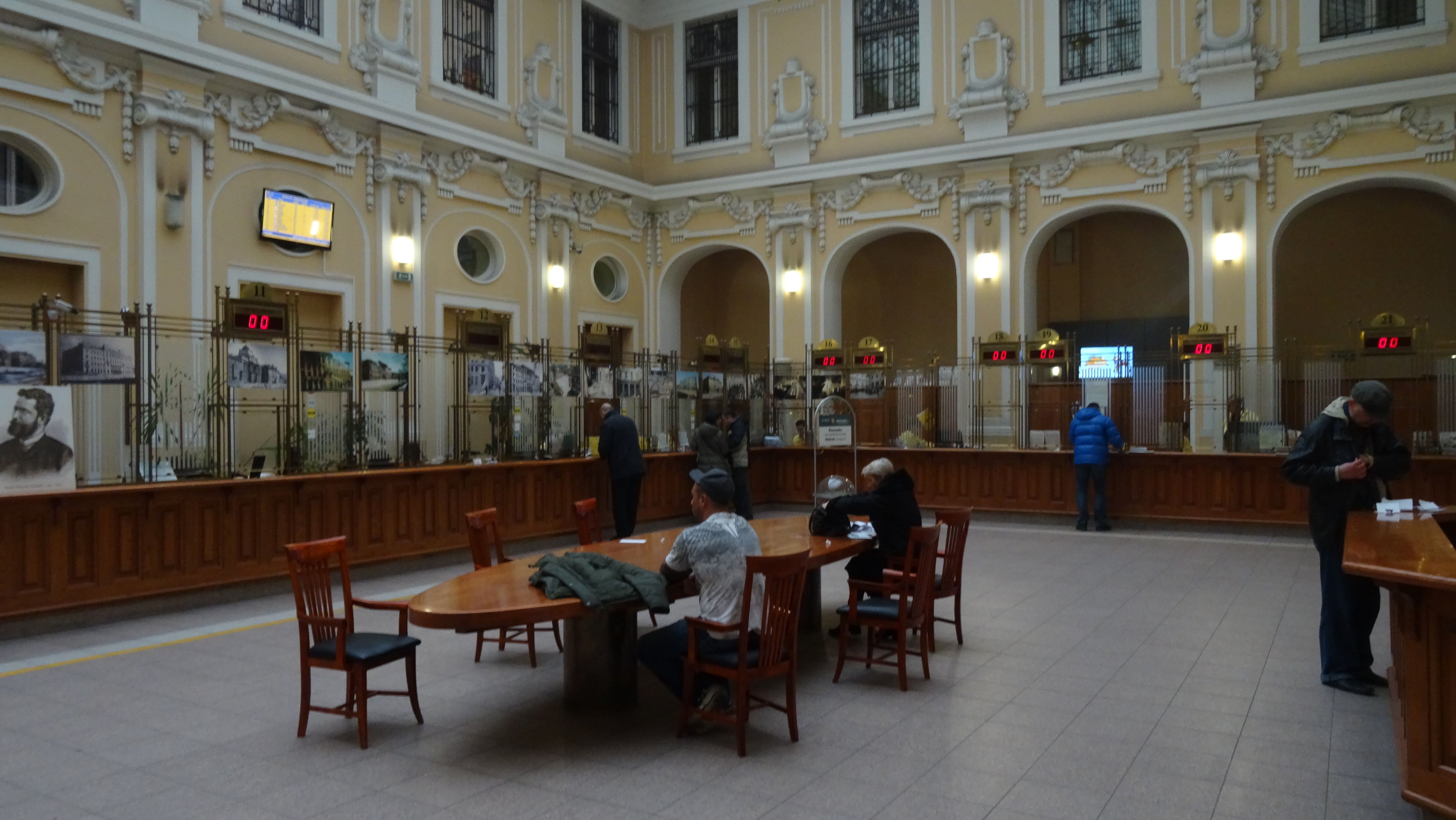 Sarajevo central post office inside